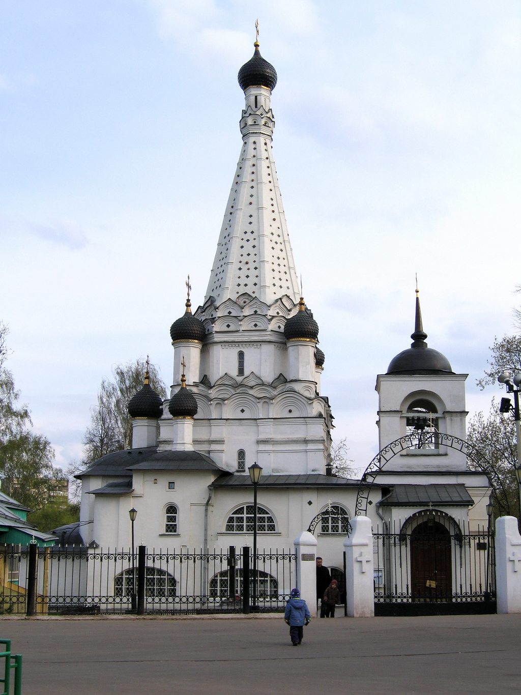 Moscow, Church of the Protection of the Theotokos in Medvedkovo.